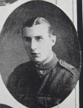 Portrait of Private Cyril Clifton Brittlebank. Service number 589, Private, 1st Anzac Cyclist Battalion, AIF WW1, Born 1895, Died 23 May 1918. Photo courtesy RSL Virtual War Memorial